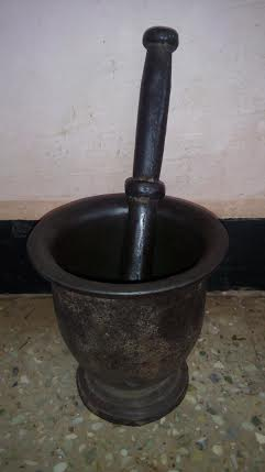 Indian antique peace